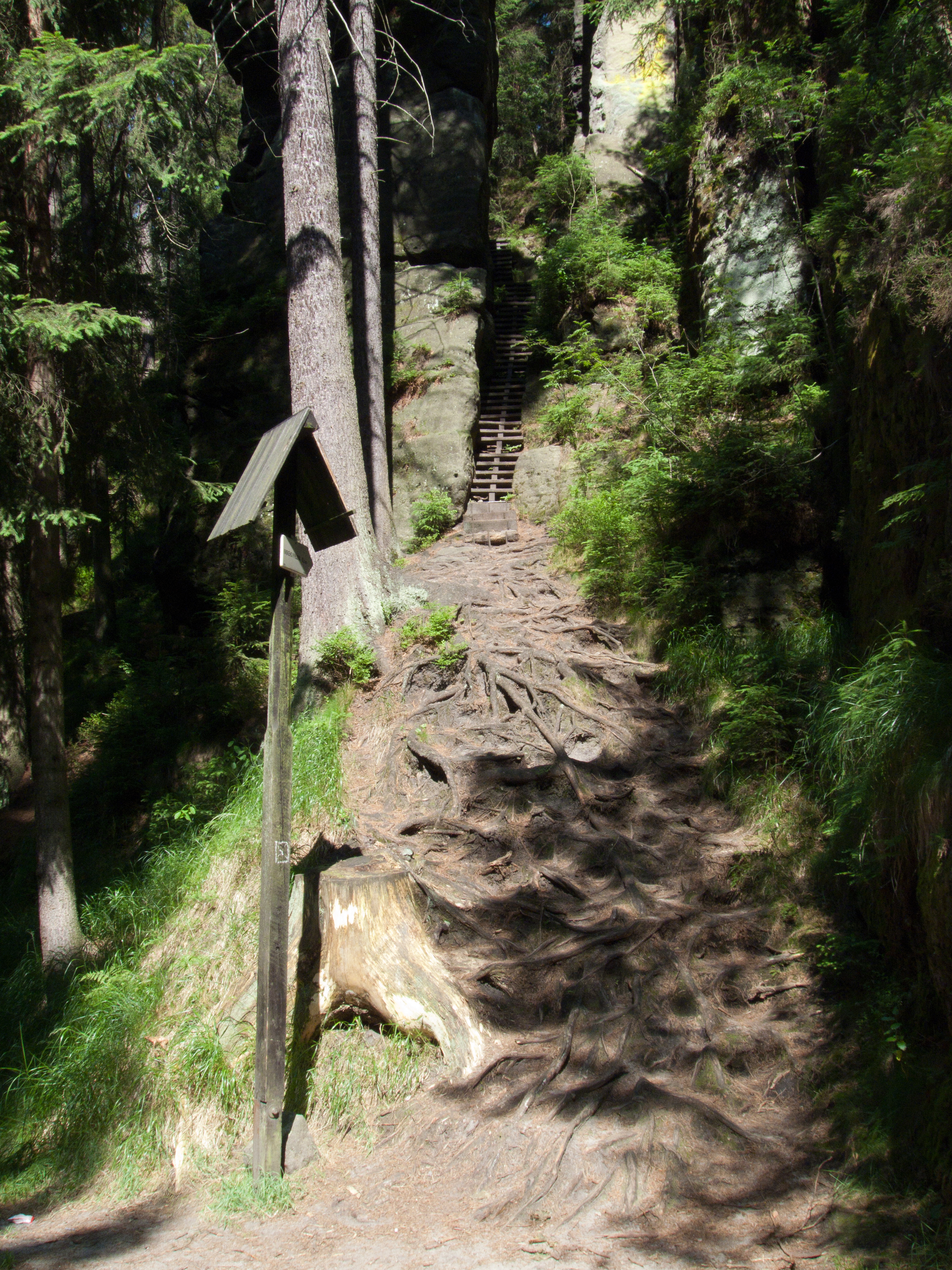 Path to get to Kinského Lookout at Köglerova (Kögler's) Educational Trail near the village of Kyjov, Děčín District, Czech Republic